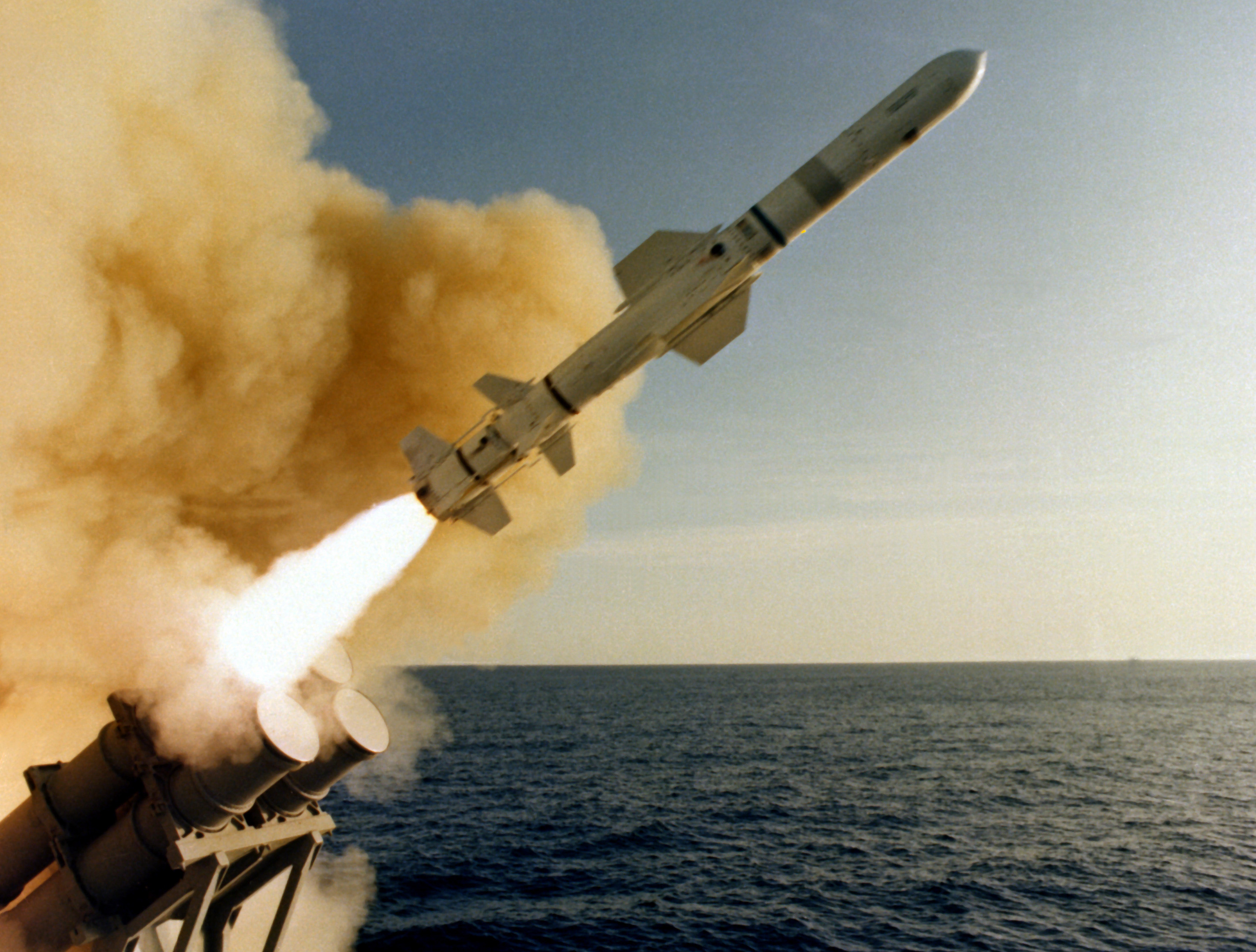 A view of an RGM-84 surface-to-surface Harpoon missile, immediately after leaving a canister launcher aboard the cruiser USS LEAHY (CG-16), near the Pacific Missile Test Center, Calif.